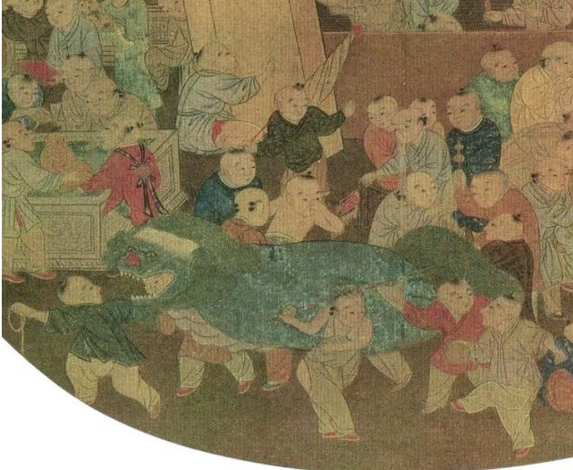 Details of the painting One Hundred Children Playing in the Spring" (百子嬉春图页) by Su Hanchen (苏汉臣) from the Song Dynasty. Painting cropped to show the lion dance